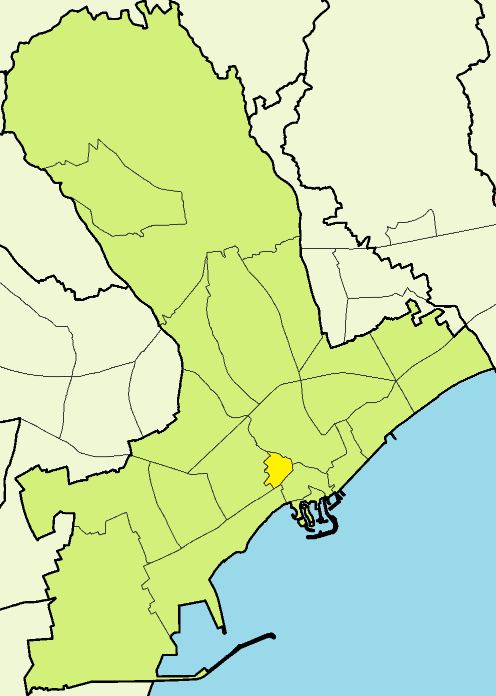 Arnaoutogeitonia in Limassol Municipality.